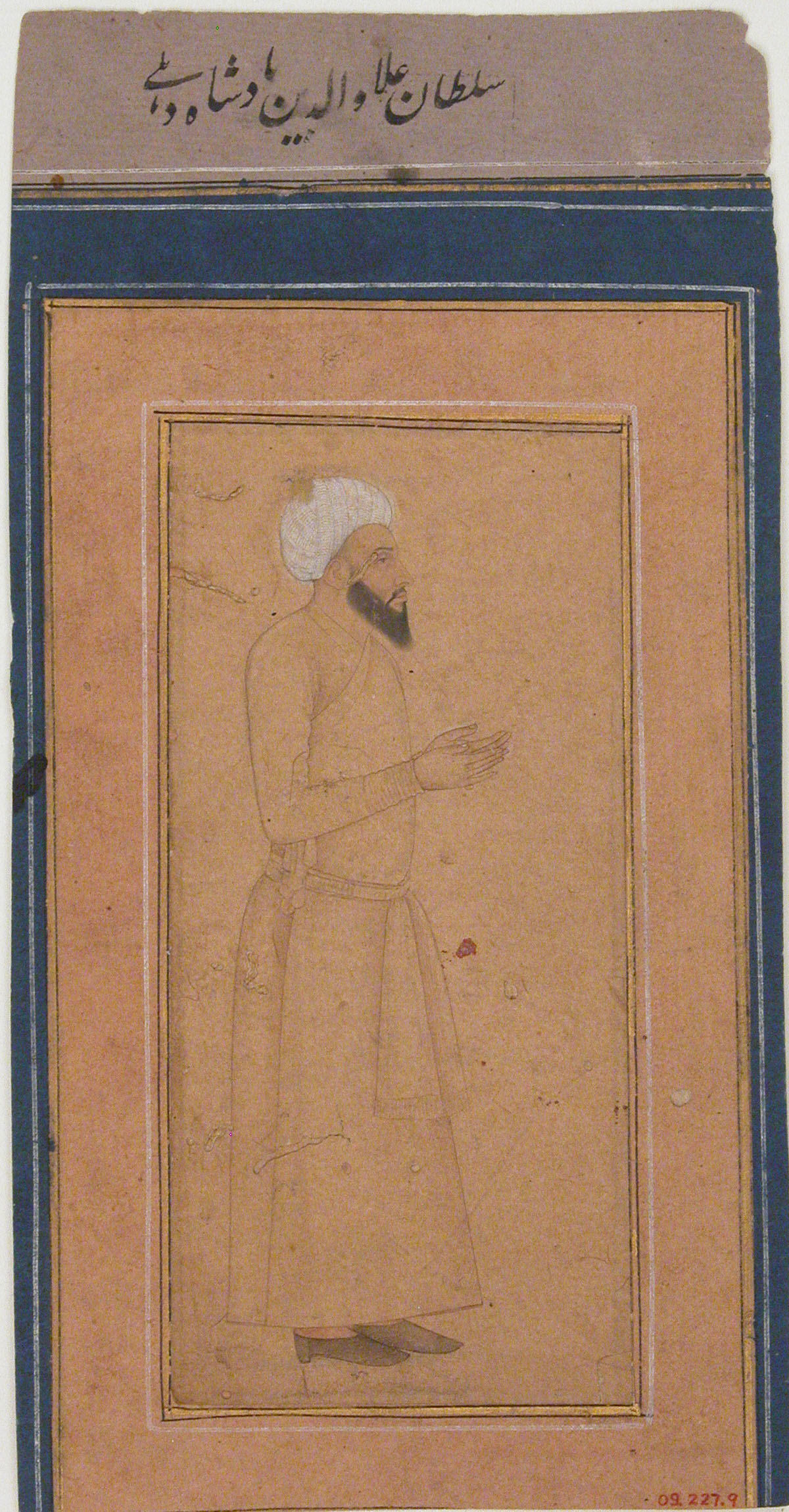 Portrait of Sultan 'Ala-ud-Din, Padshah of Delhi Object Name Illustrated album leaf Date late 17th century Geography India Culture Islamic Medium Ink, opaque watercolor, and gold on paper Dimensions 8 x 4 1/8 in. (20.3 x 10.5 cm) Classification Codices Credit Line Gift of Dr. Julius Hoffman, 1909 Accession Number 09.227.9 This artwork is not on display